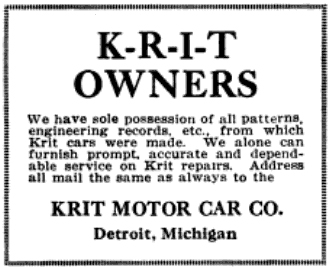 KRIT Motor Car Co. of Detroit, Michigan - Patterns - 1917